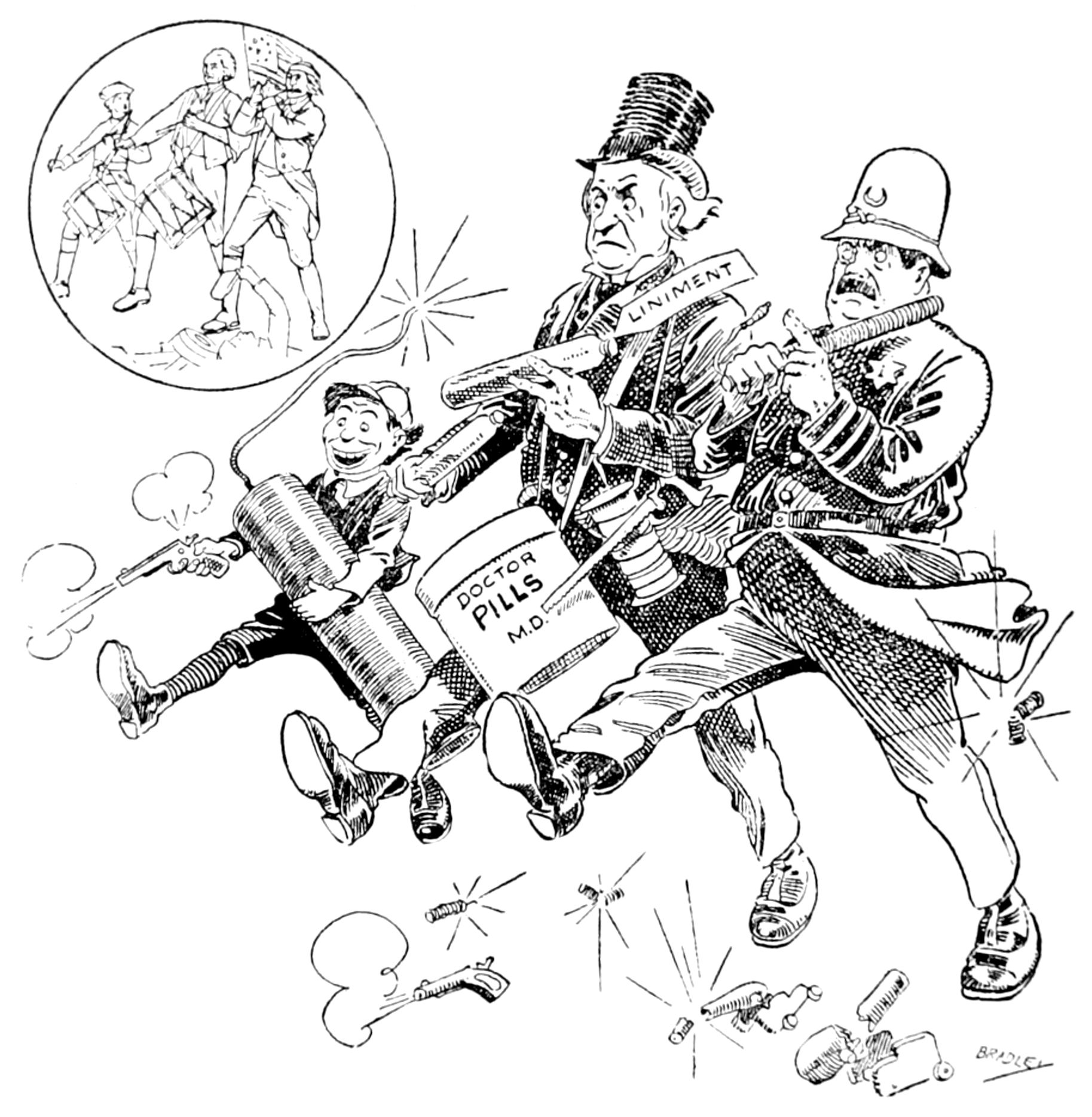 THE SPIRIT OF '76 DOWN TO DATE